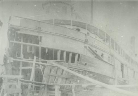 Construction of the steamer Peerless